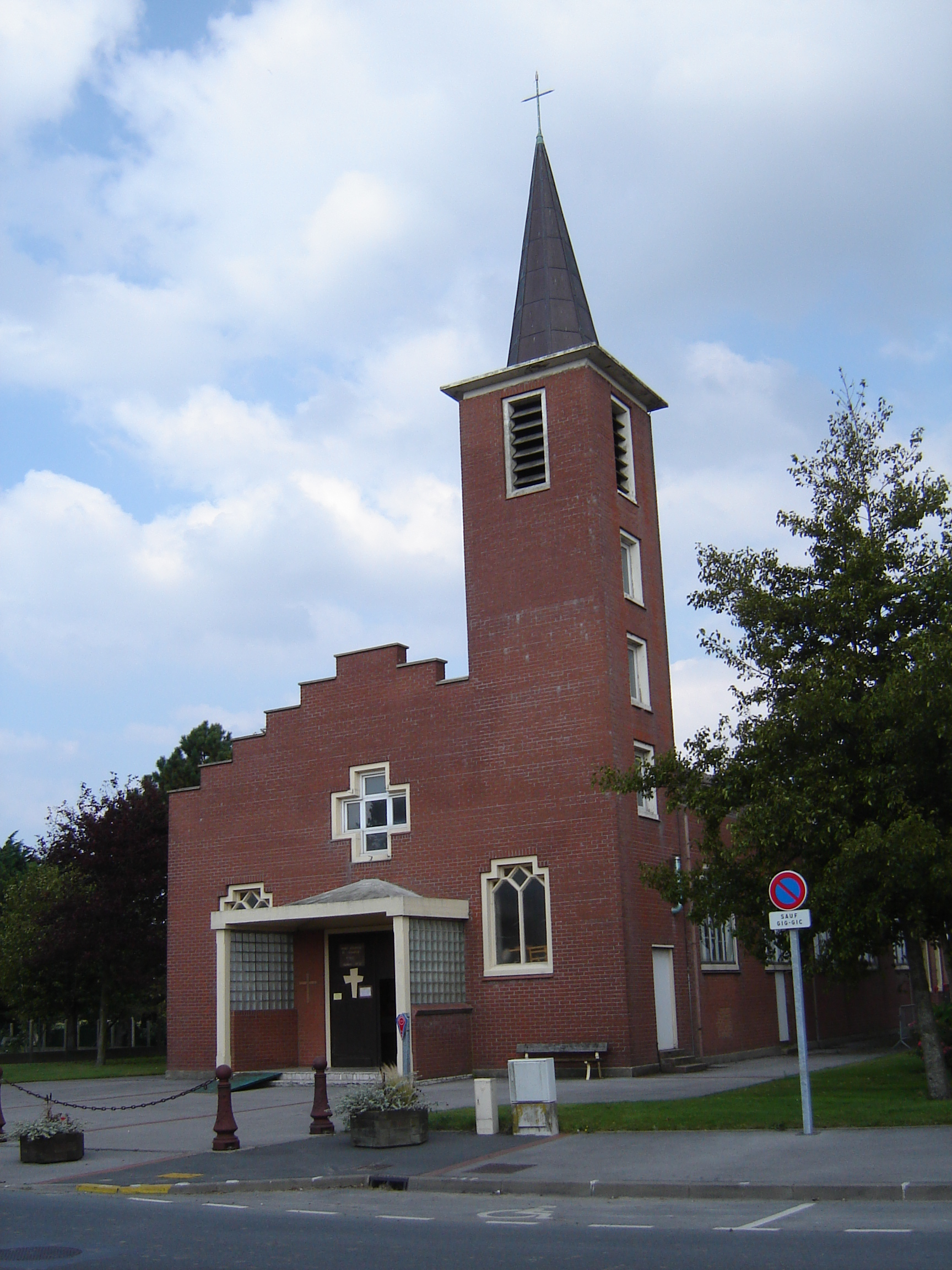 Church of Saint Nicholas in Zuydcoote. Zuydcoote, Nord, Nord-Pas-de-Calais, France